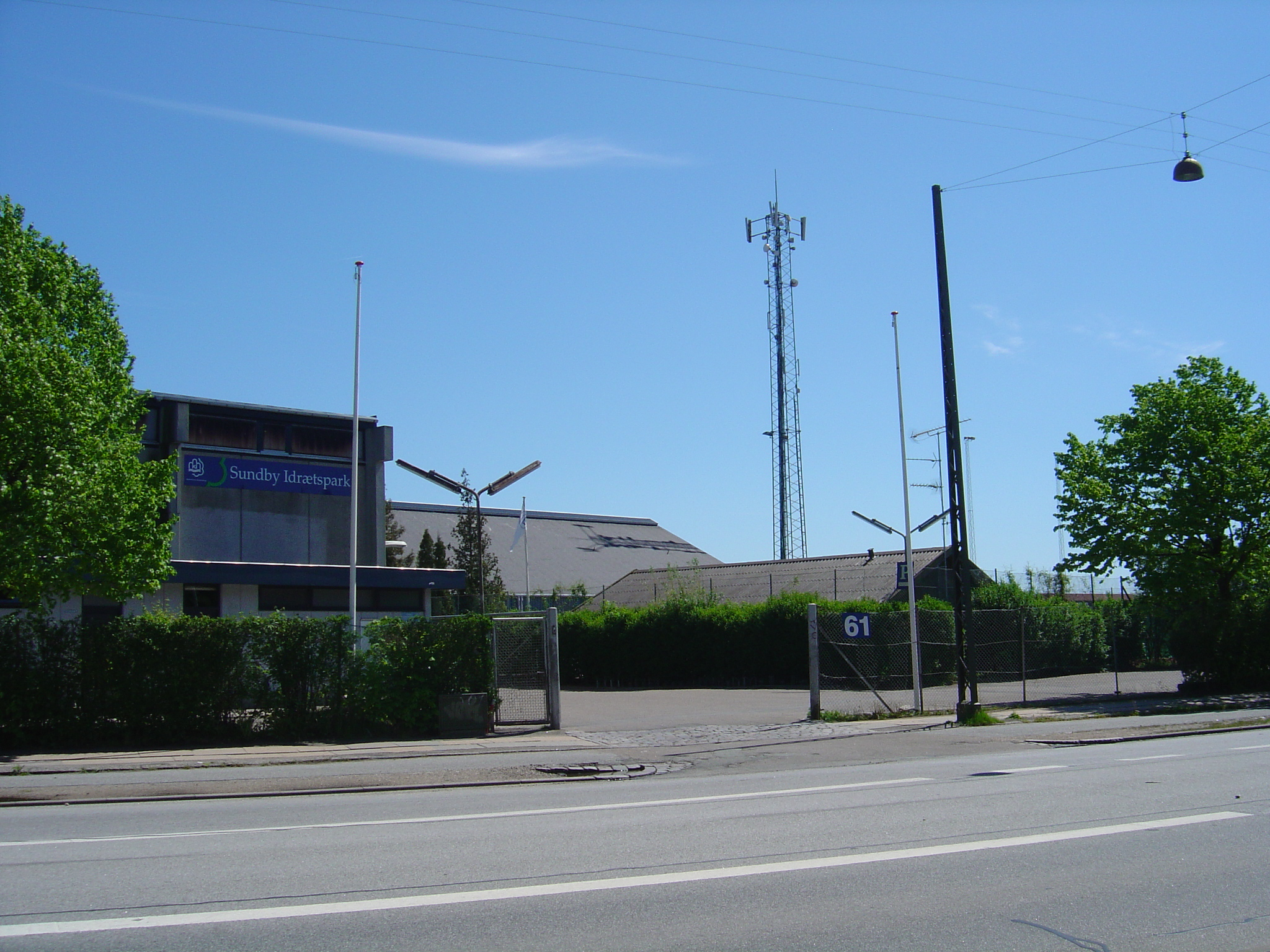 Sundby Idrætspark - a combined football and athletics stadium on Amager, Copenhagen. Seen from the main entrance on Englandsvej.